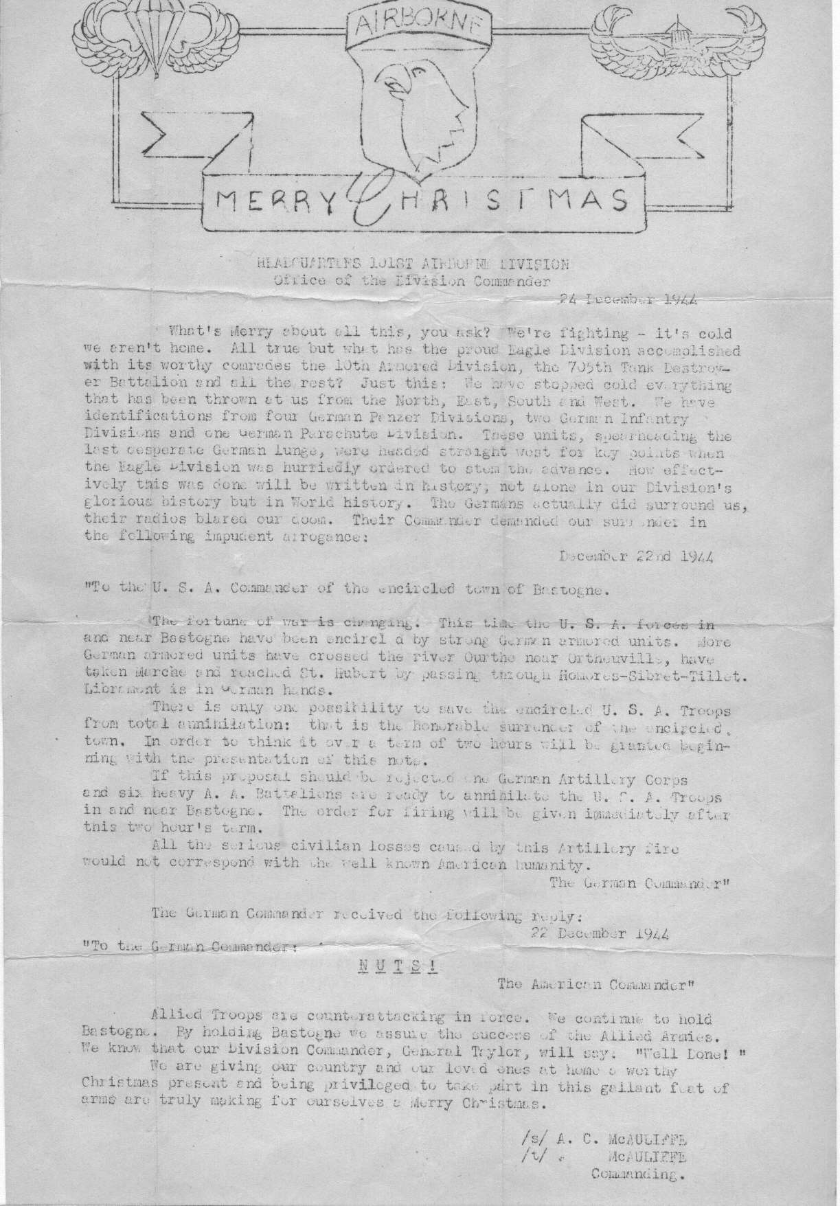 Scanned in image of copy of the letter sent to soldiers of the 101st Airborne Division during the Battle of Bastogne. The original letter imaged here is from the memorabilia of Private William (Bill) Wheeler, 506th PIR, 101st Airborne Division who participated in the action. He trained at Toccoa and was originally with Headquarters Company. Private Wheeler volunteered for pathfinder school, participated in the D-Day drop as a pathfinder during which his transport airplane made a controlled ditching in the English Channel after being hit by anti-aircraft fire, and ended up in Easy Company as a replacement. He participated in the Holland Jump (A Bridge Too Far), the defense of Bastogne, and other actions completing his tour with Easy Company in Austria at war's end. The letter from which this image was created is a text created by a U.S. Army commander as part of his duties during World War II and should be in the public domain as an official U.S. Government document. The image is a scan of the original document and is placed in the public domain by the person who did the scan, Richard Chambers.